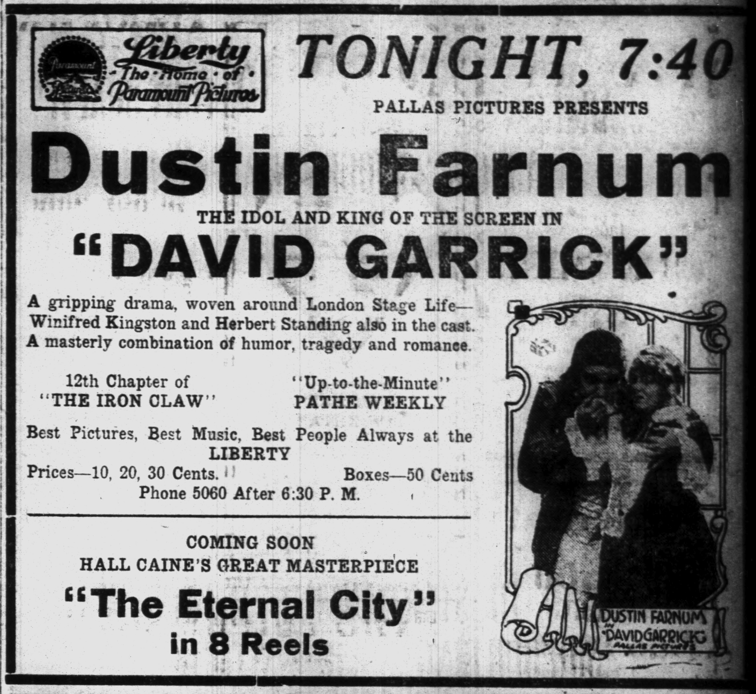 David Garrick is a 1916 American silent historical film directed by Frank Lloyd and starring Dustin Farnum, Winifred Kingston and Herbert Standing. Newspaper advert for the film.